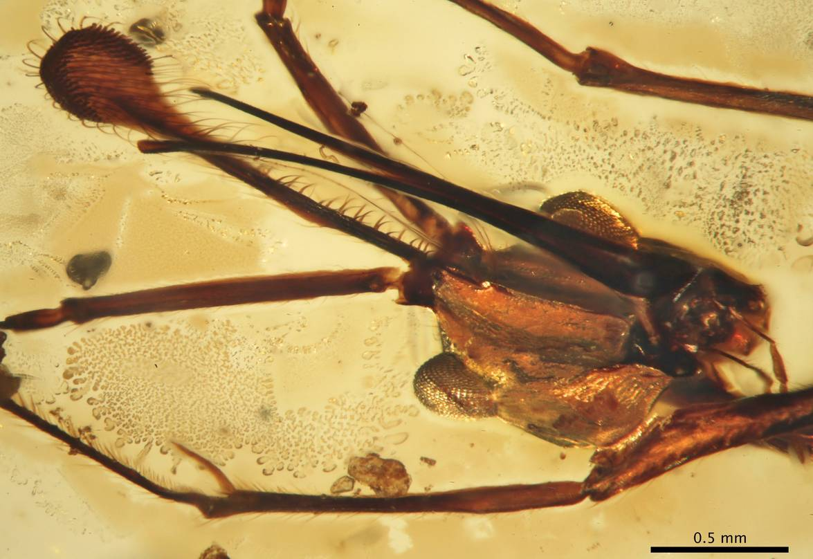 Ventral view of the Ceratomyrmex ellenbergeri head. Holotype specimen NIGP164022, Nanjing Institute of Geology and Palaeontology, Chinese Academy of Sciences, Nanjing, China Burmese amber, Earliest Cenomanian; Kachin State, Myanmar